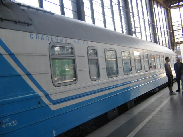 Wagon of Sibirjak express departing from Berlin Zoologischer Garten railway station